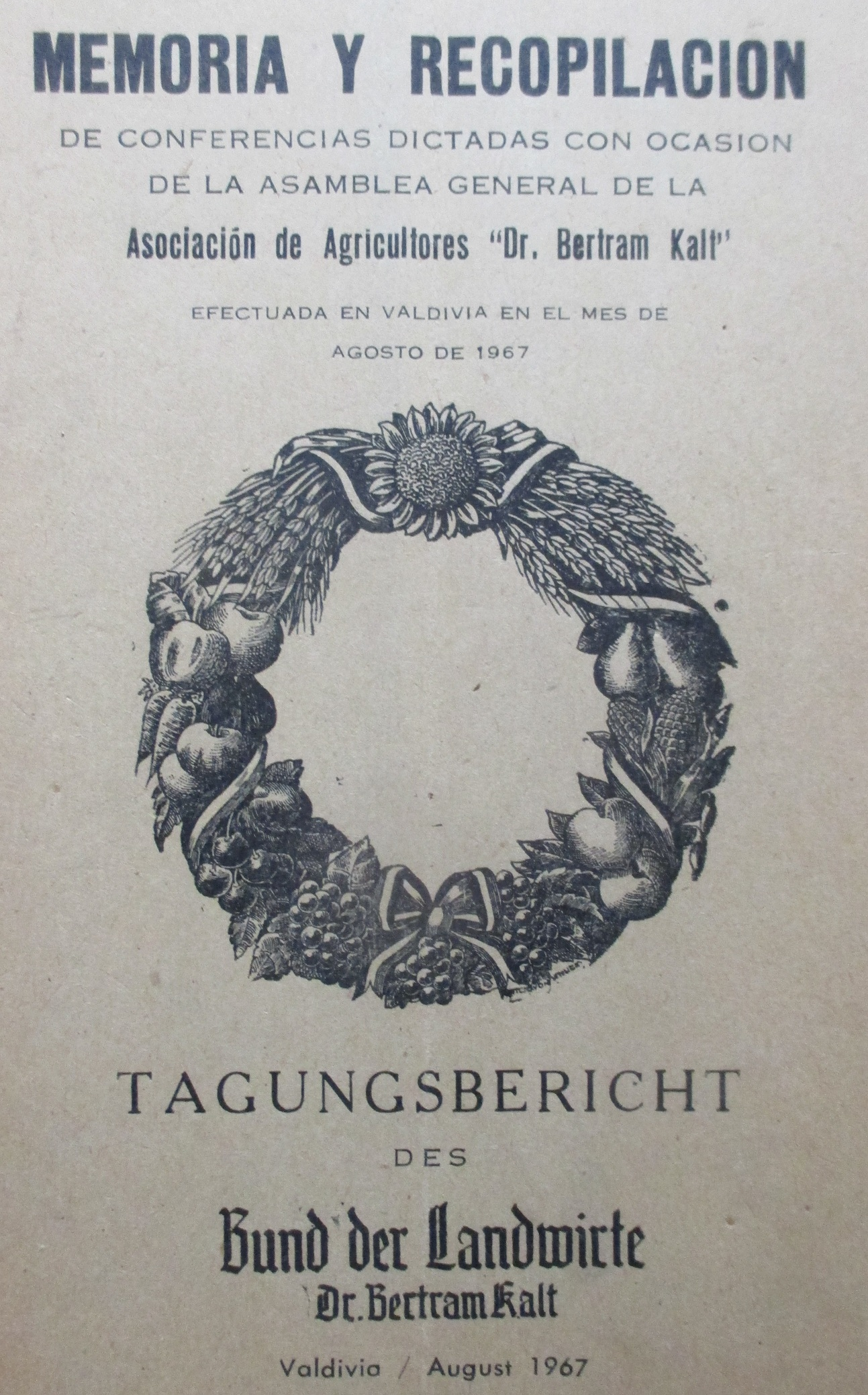 Farmer's Association Dr. Bertram Kalt